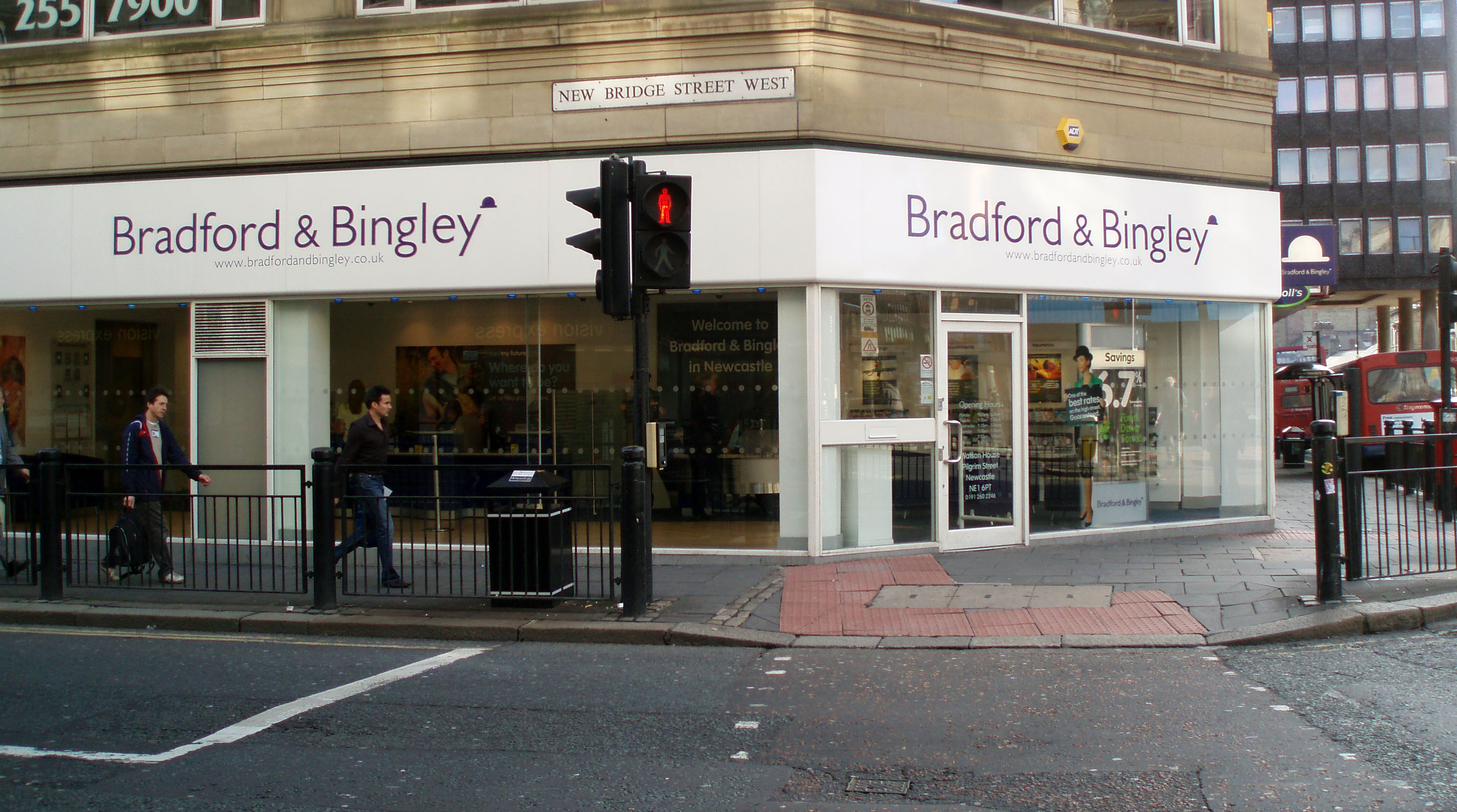 The Newcastle upon Tyne, New Bridge Street West branch of Bradford & Bingley. Taken on 1 October 2008.